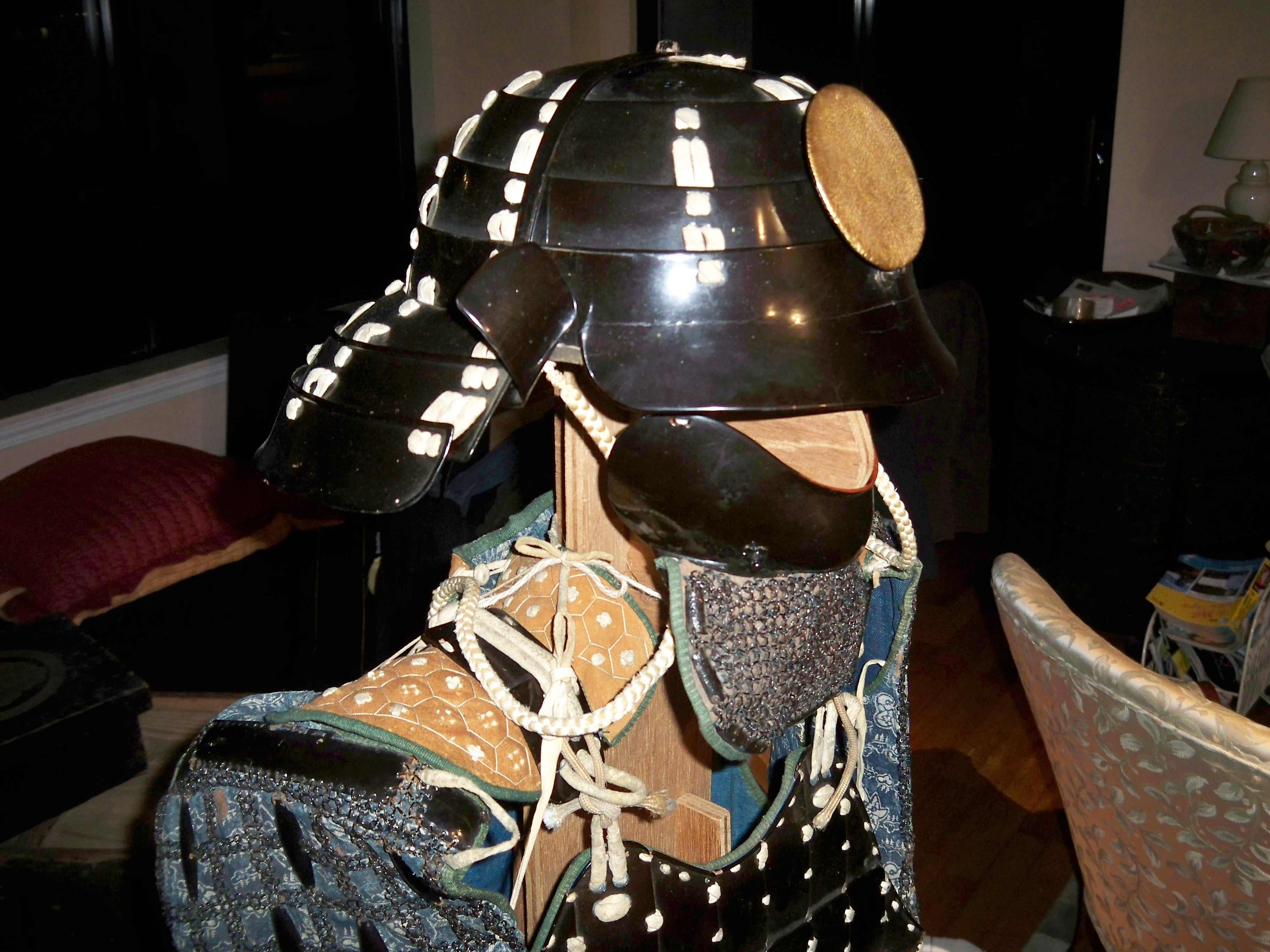 Japanese (samurai) Edo period iron collapsible helmet "chochin kabuto"